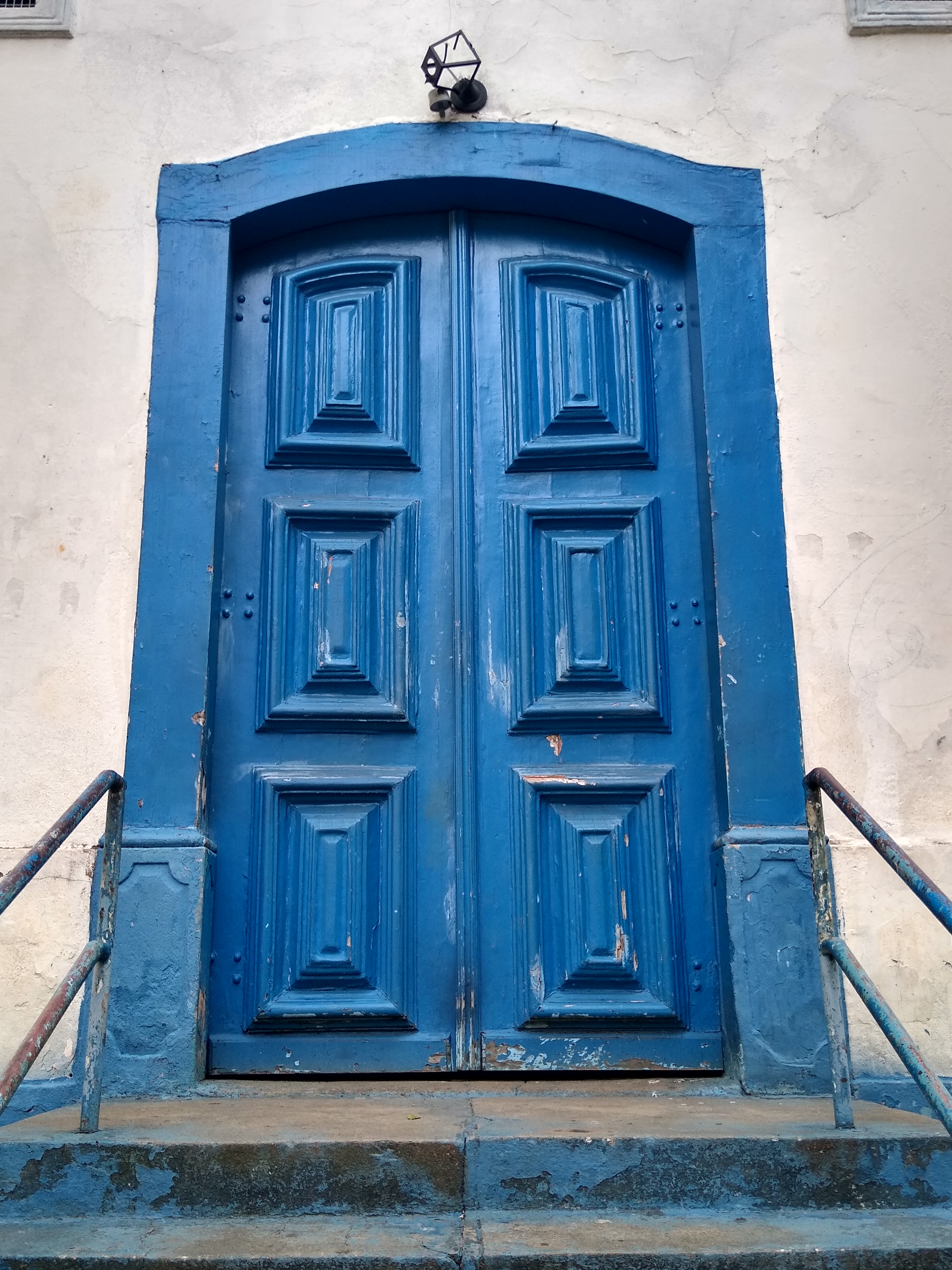 Igreja do Rosário